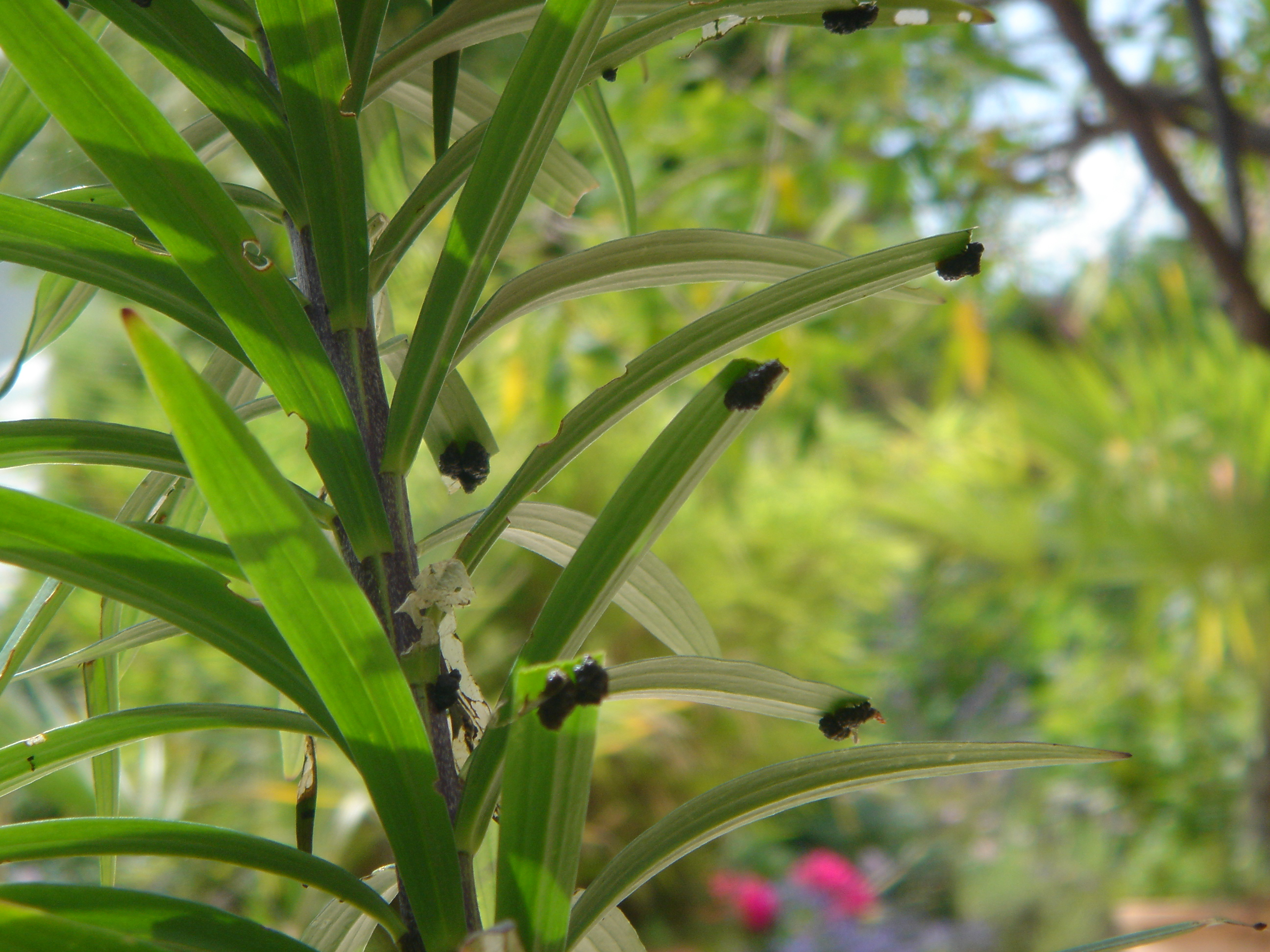 Scarlet lily beetle, larvea on lily leaves. Picture taken in own garden.